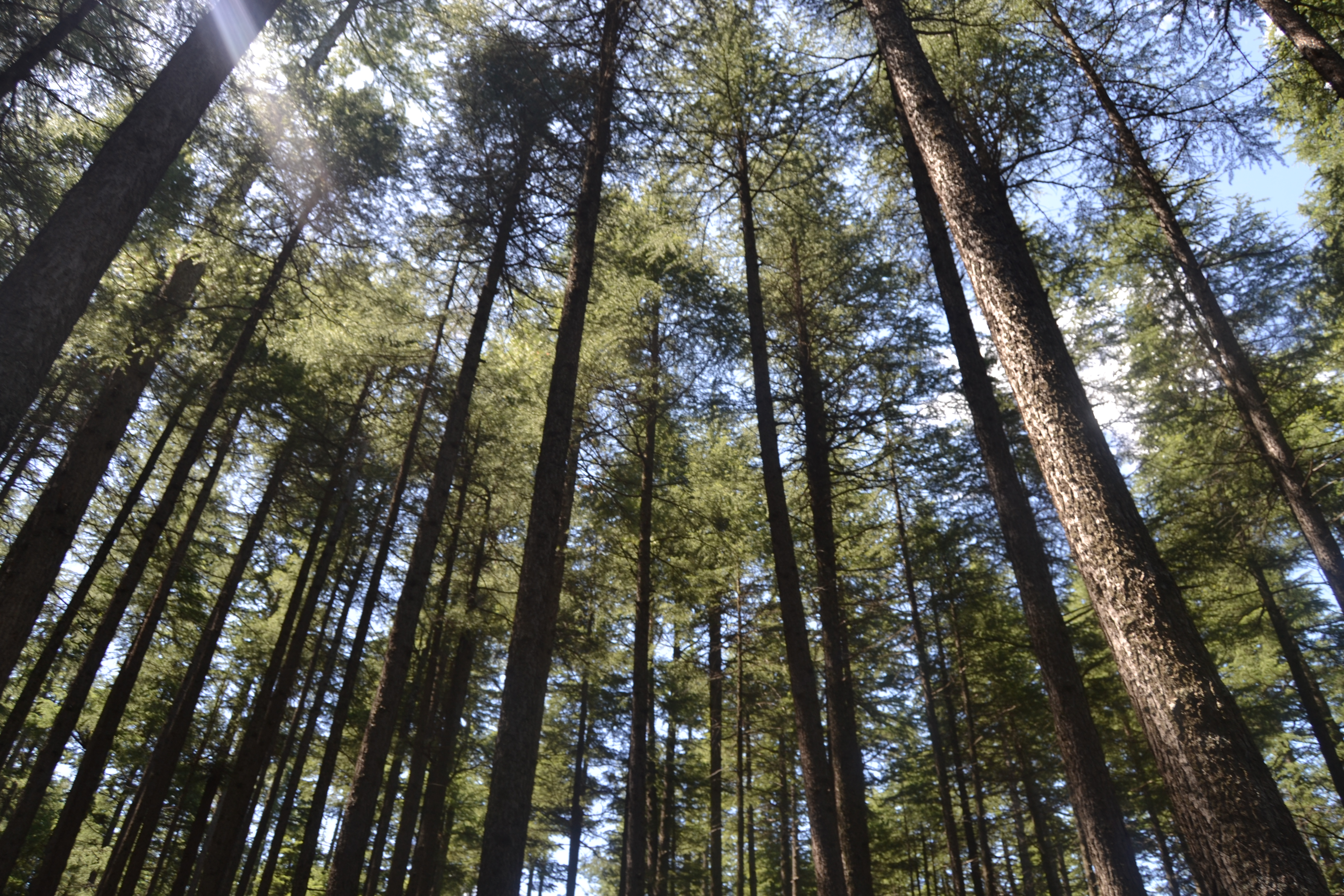 Kalaam Forest in Kalaam Valley, Sawat